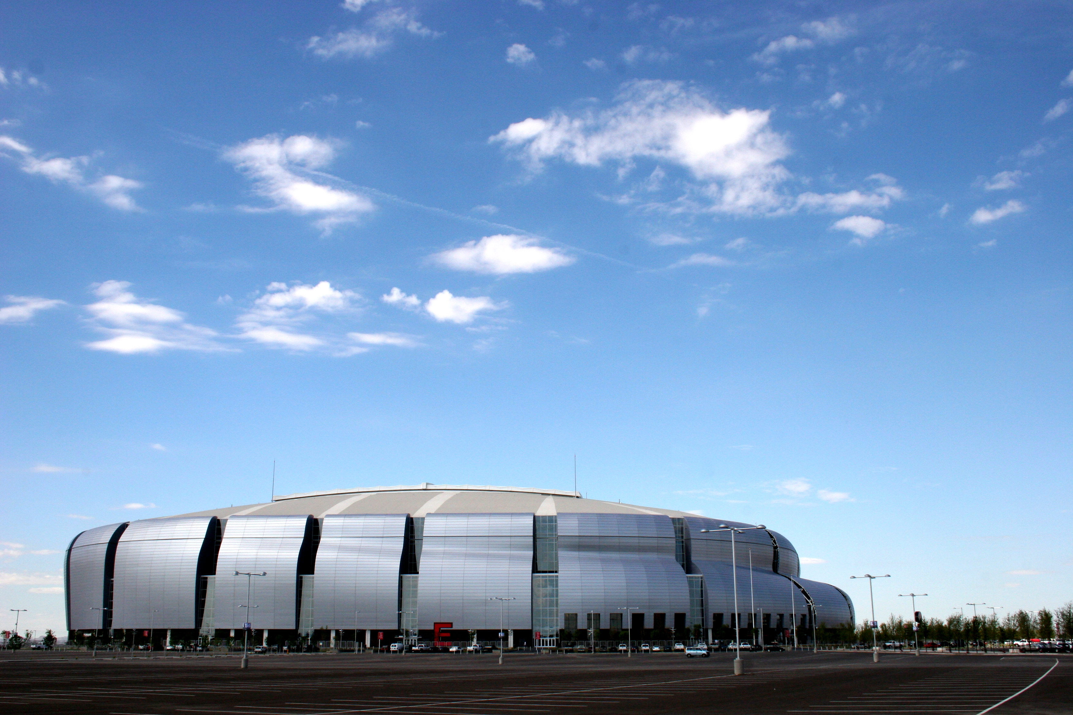 The University of Phoenix Stadium in Glendale, Arizona, home of the Arizona Cardinals and host of the Fiesta Bowl